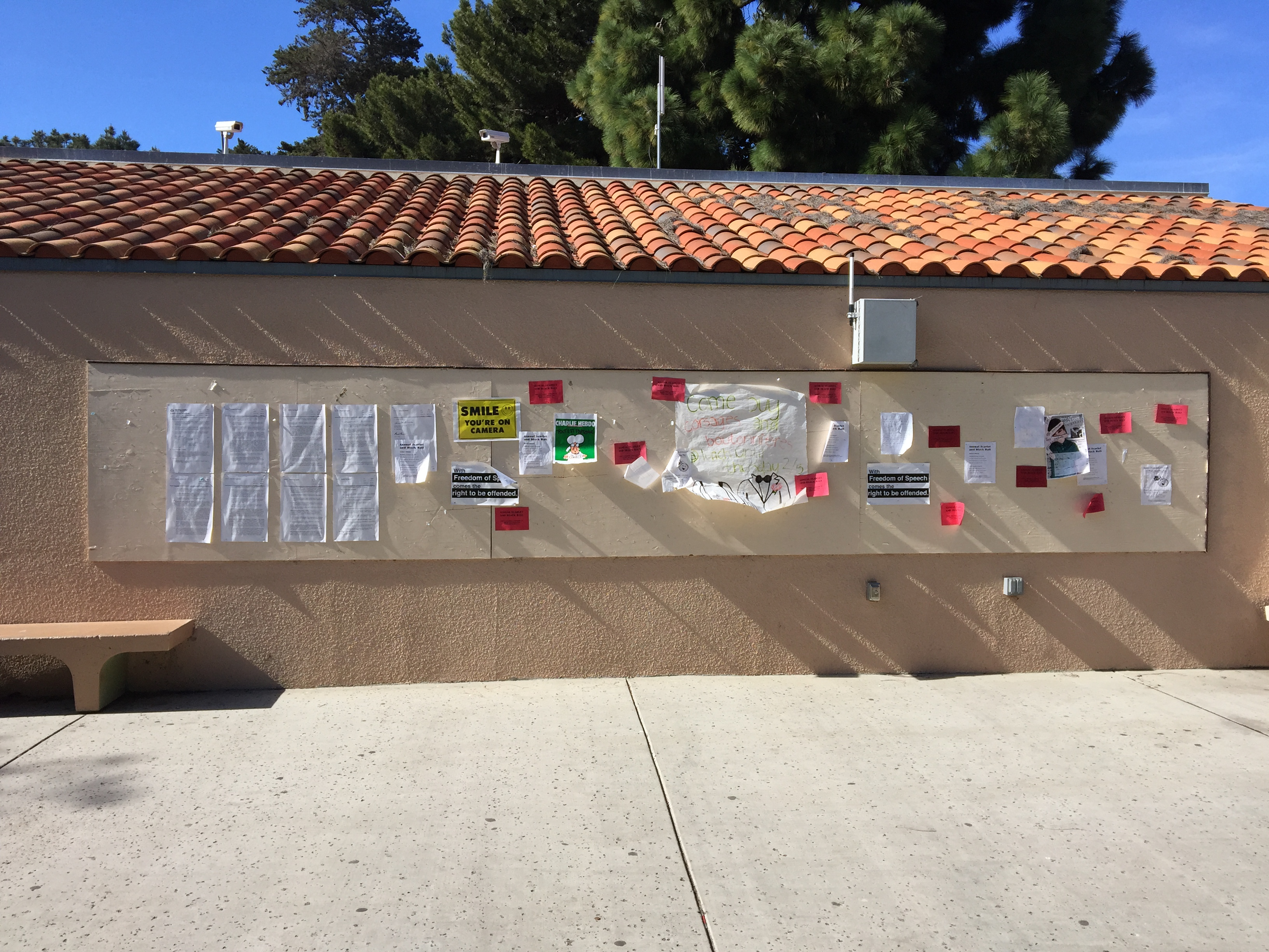 Photograph of the La Jolla High School Free Speech Board as described in the 2012 Settlement of Hoshijima v. Shelburne by the ACLU of San Diego & Imperial Counties.